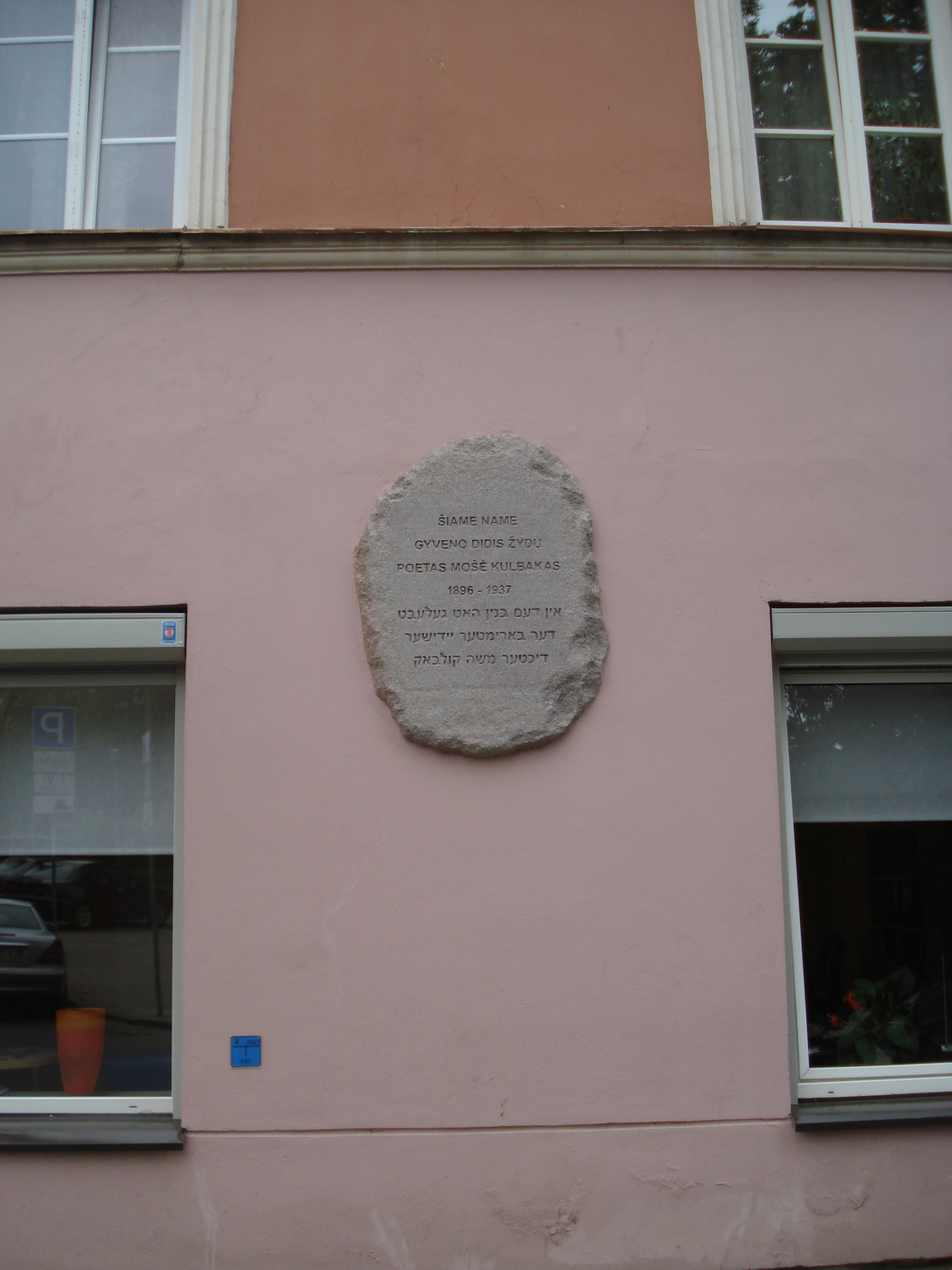 Moshe Kulbak (Jewish poet, 1896-1937) memorial plaque in Vilnius (Karmelitų g. 5; inscribed in Yiddish and Lithuanian, was unveiled on August 28, 2004 during the Second World Litvak Congress in Vilnius